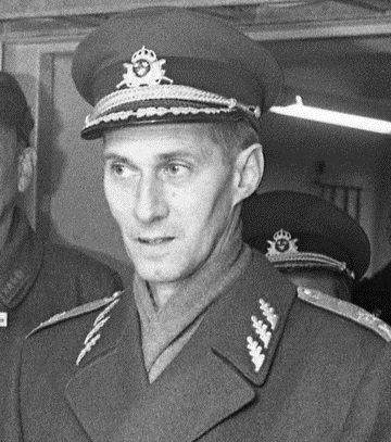 Major General Ove Ljung conduct an inspection at the Life Regiment Grenadiers (I 3) in Örebro.